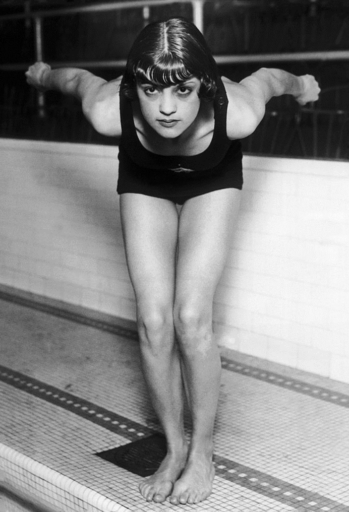 The American Swimmer Jane Fauntz Ready To Dive Into Chicago'S Iwac Pool, In July 1928. Jane Fauntz Was A Part Of America'S Women'S Swimming Team, Selected To Participate In The Olympic Games Of Amsterdam In August 1928.